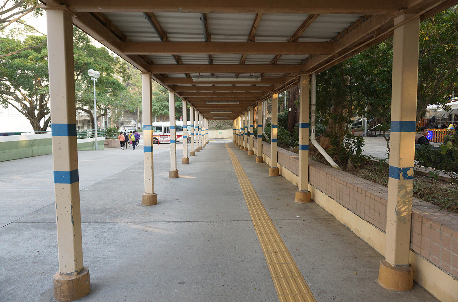 Sun Tin Wai Estate in Sha Tin Tau, Hong Kong.